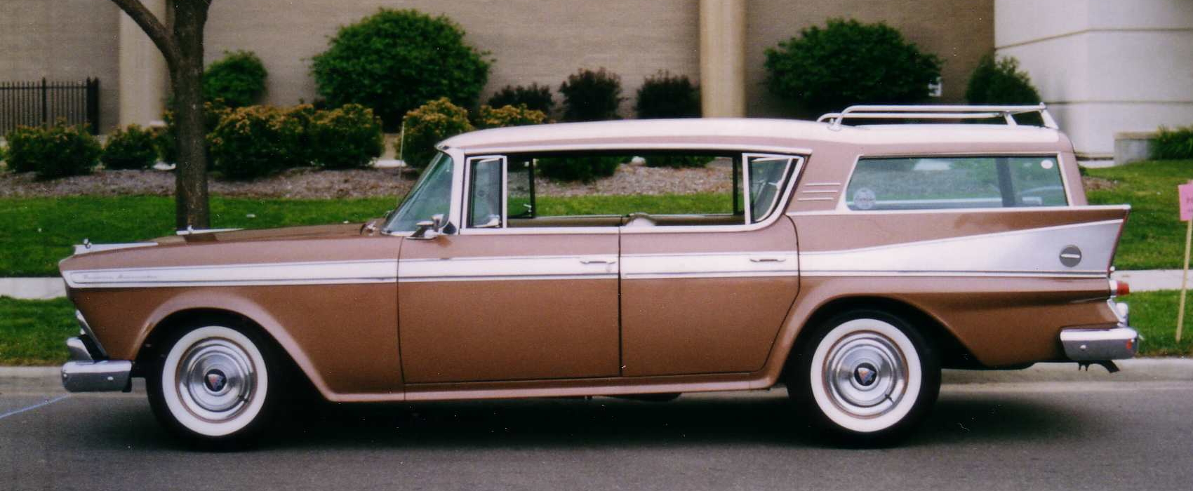 1958 Ambassador by Rambler - made by American Motors Corporation (AMC) - a 4-door hardtop (no B pillar) station wagon. Picture taken near the Kenosha History Center during events at the 100th Anniversary Celebration of the Rambler (1902-2002) that was held July 22 - July 27, 2002, in Kenosha, Wisconsin.